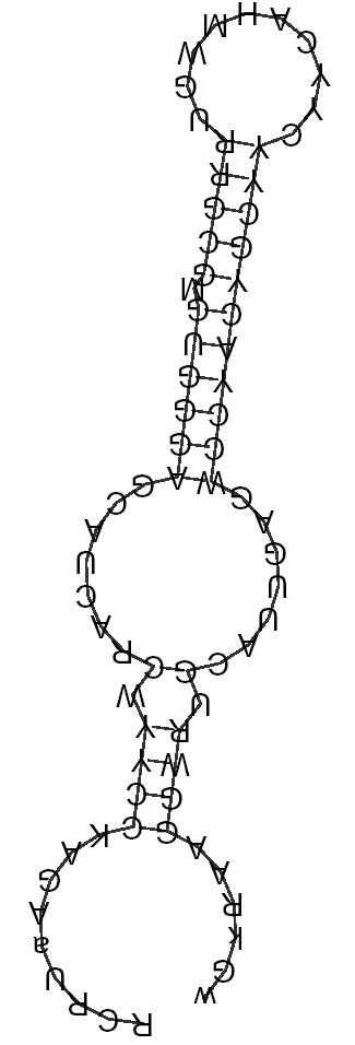 RNA secondary structure of TB11Cs4H2 generated by the WAR server( It is the consensus structure from several Trypansomatid species -Leishmania major, Leishmania infantum, Leishmania braziliensis, Trypanosoma brucei, Trypanosoma brucei gambiense, Trypanosoma cruzi, Trypanosoma congolense, Trypansoma vivax --with some manual editing and redrawing of the structure with RNAplot from the Vienna RNA package